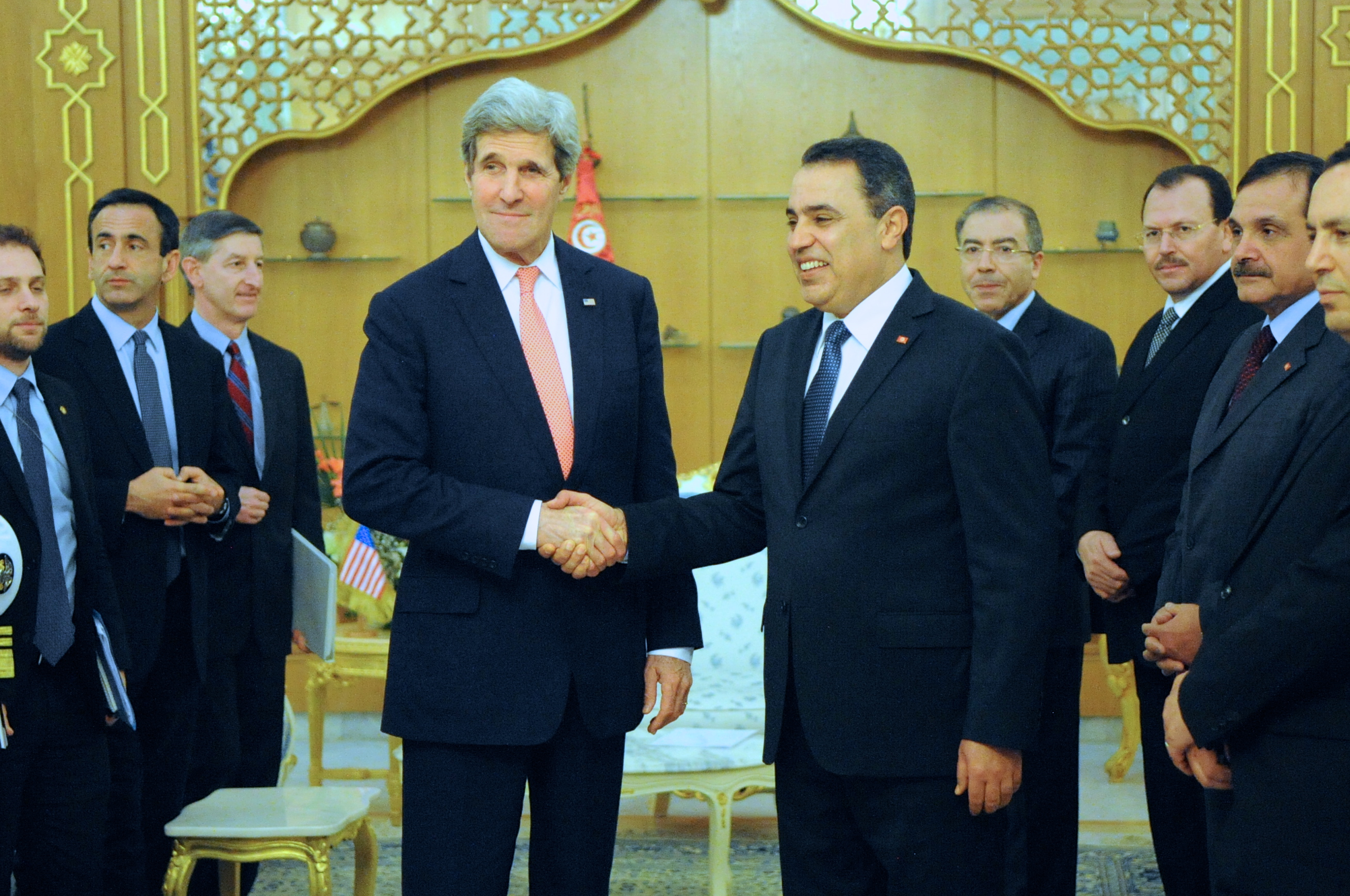 Mehdi Jomaa and John Kerry